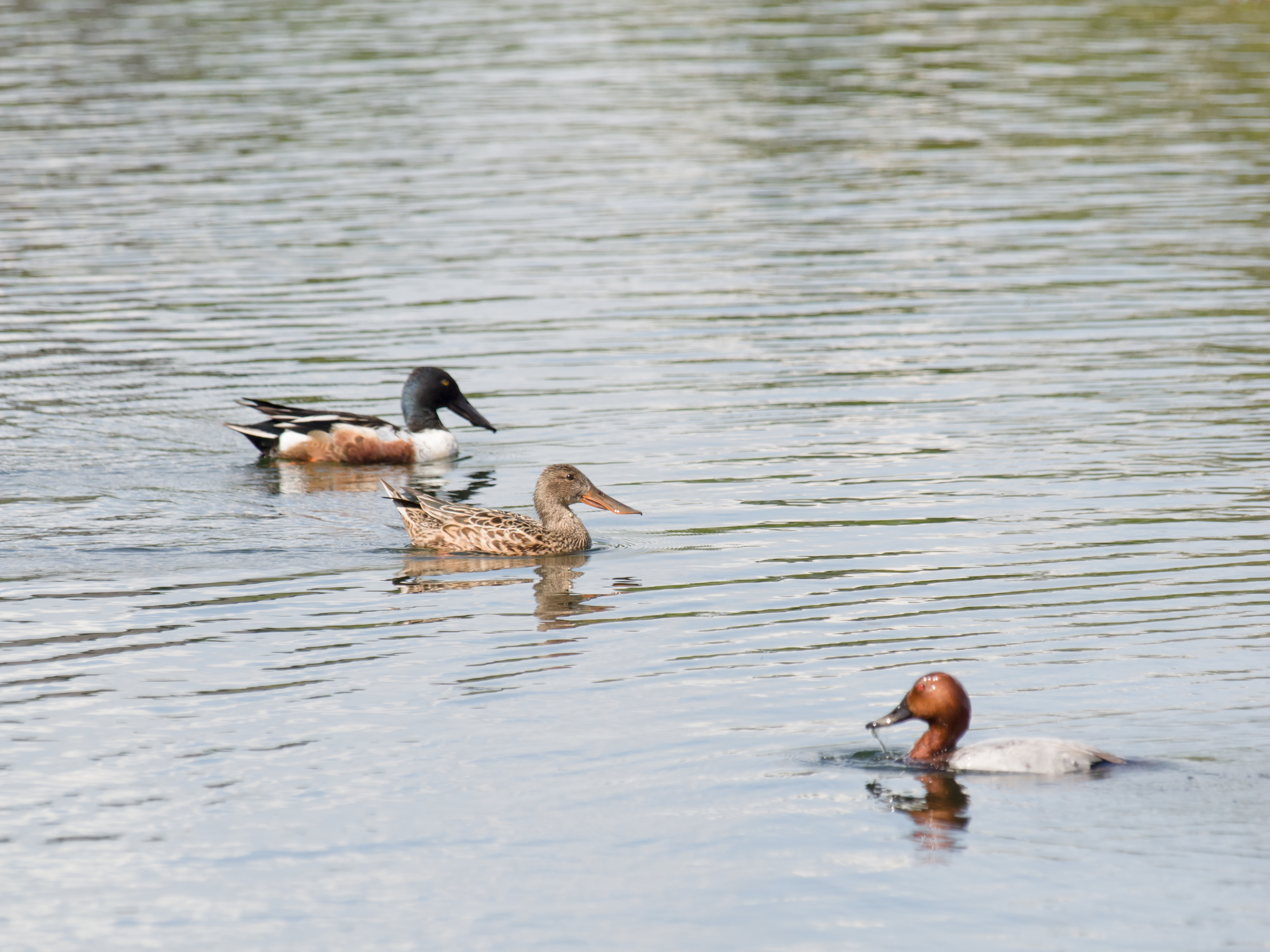 London Wetlands Centre